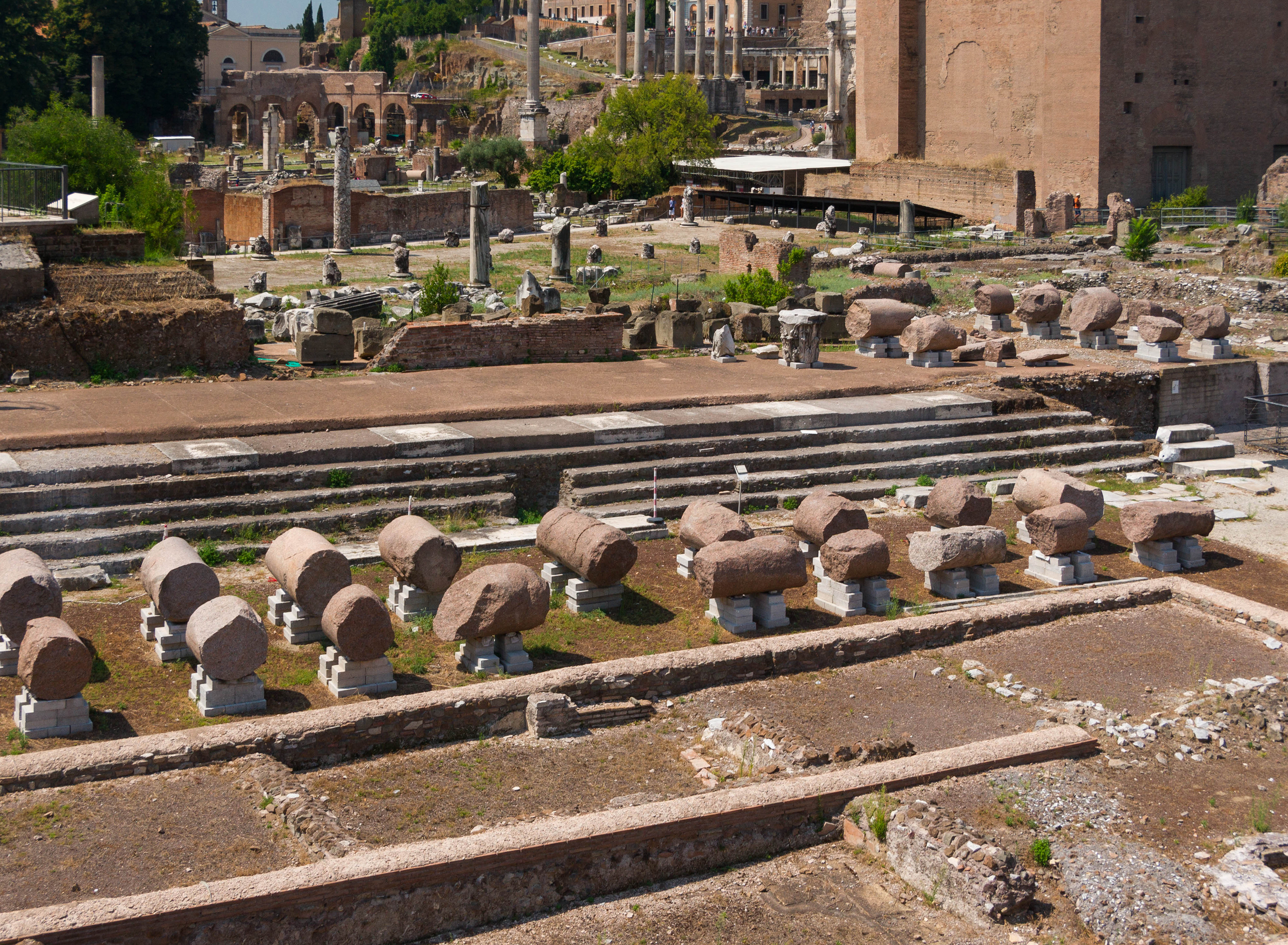 An overview of the Forum Romanum, Rome, Italy.